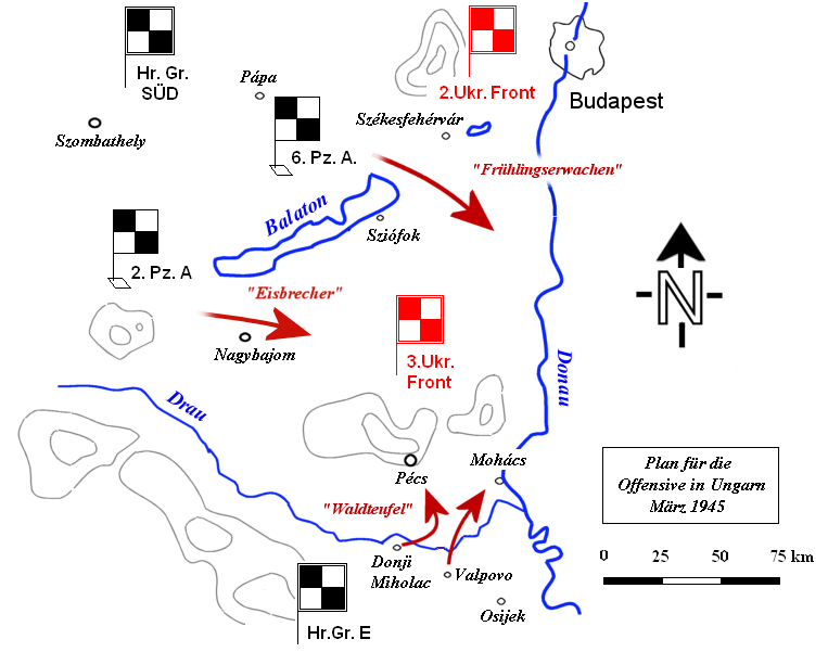 scematic of Germany's planned offensiv operation in Hungary in march 1945, based on descriptions by Christían Hungváry (Publisher: Karl-Heinz Frieser) in "Das Deutsche Reich und der Zweite Wk., Bnd. 8" and Josef Puntigam in "Vom Plattensee bis zur Mur"